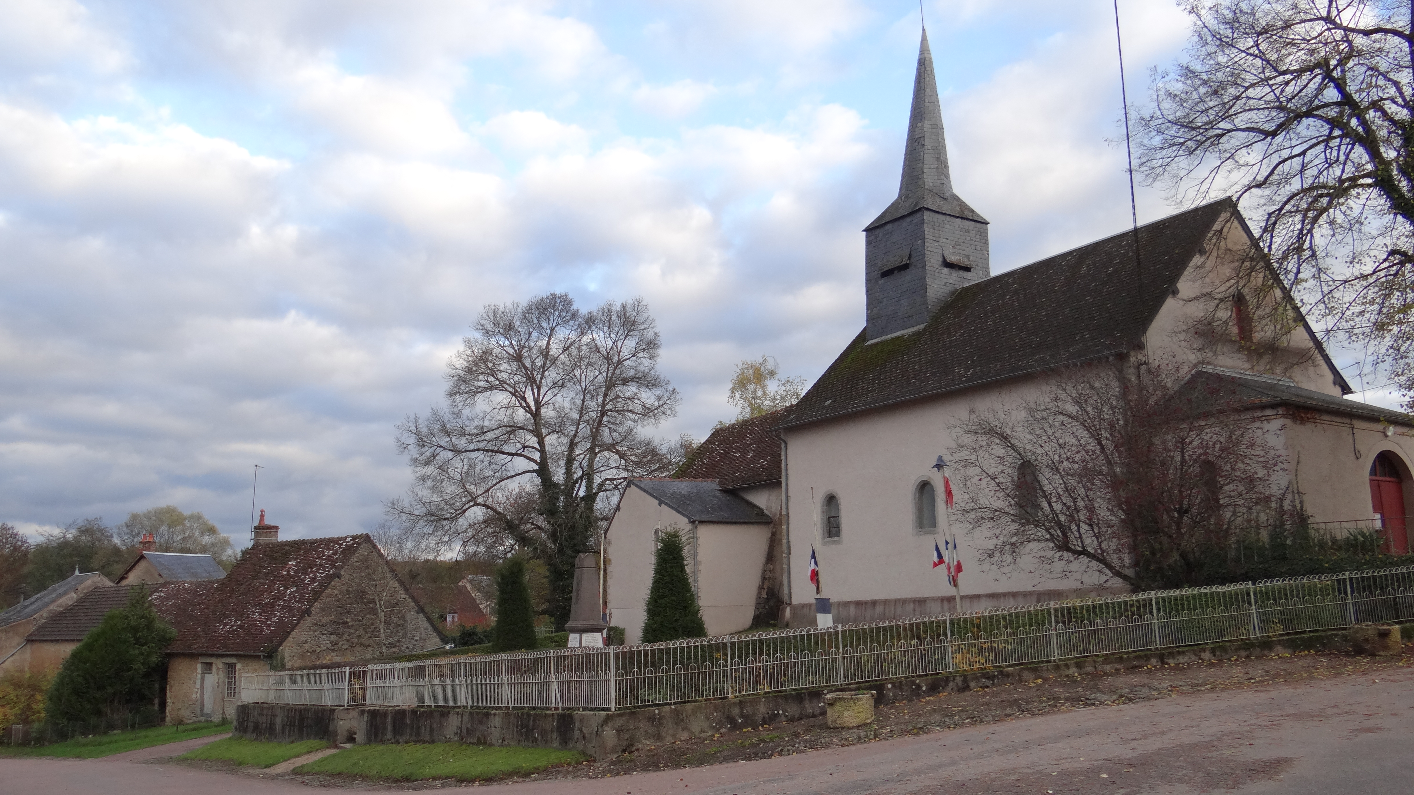 The village of Tamnay-en-Bazois, Nièvre, France The church